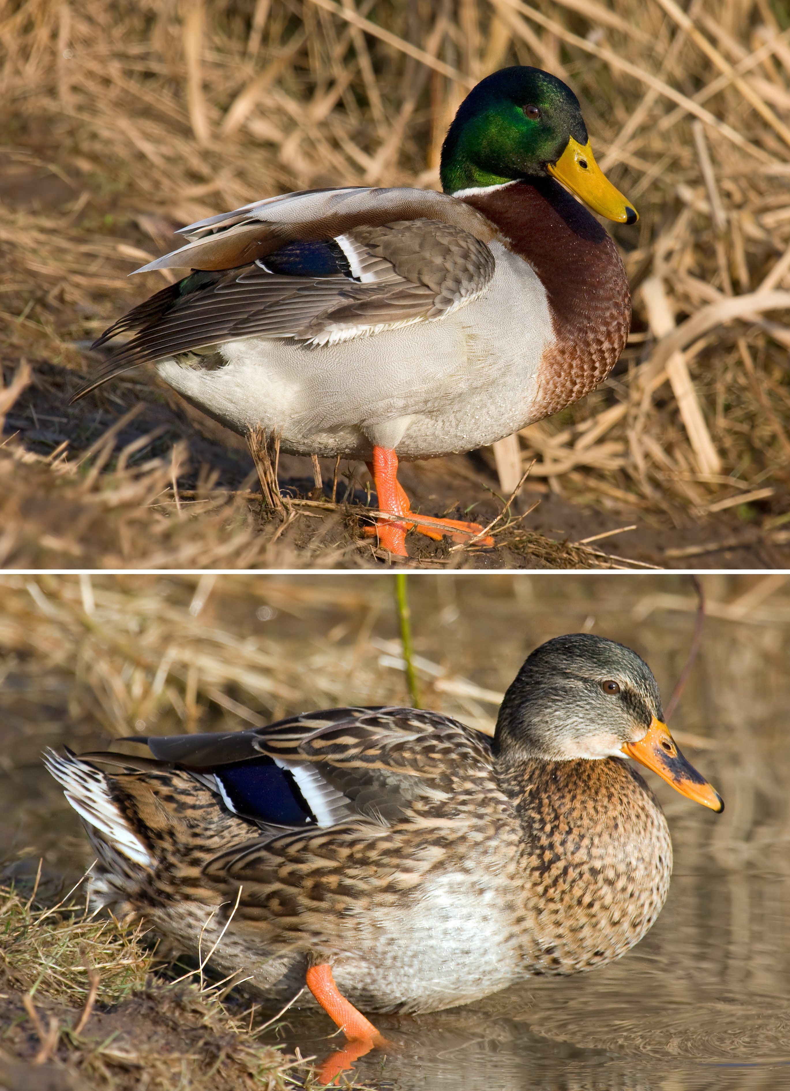 Anas platyrhynchos male and female(Lahn/Germany)